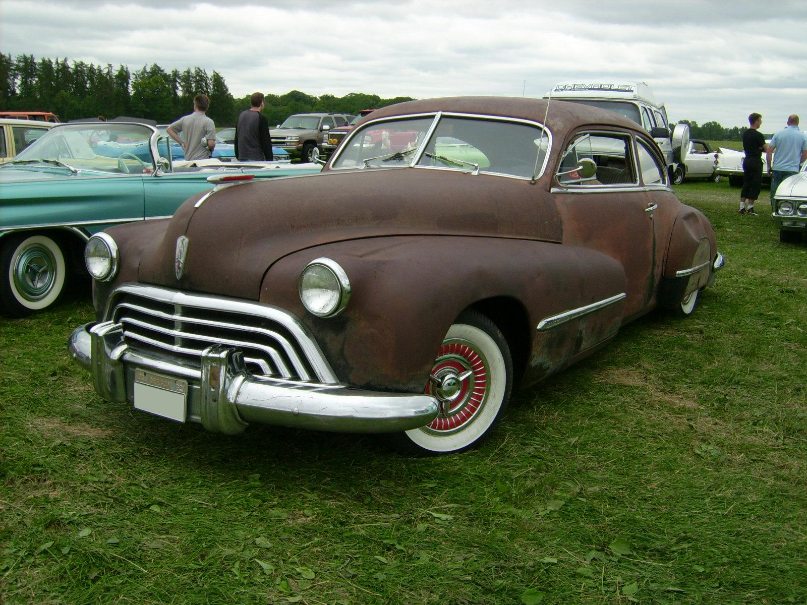 1947 Oldsmobile 98 at Power Big Meet 2007, Västerås, Sweden